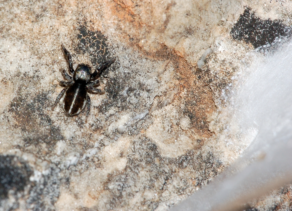 Pellenes brevis, female (det. Heiko Metzner, 2008), 2 km North of Le Caylar, 43°51'N 03°19'E, 800mNN, Languedoc-Roussillon, France